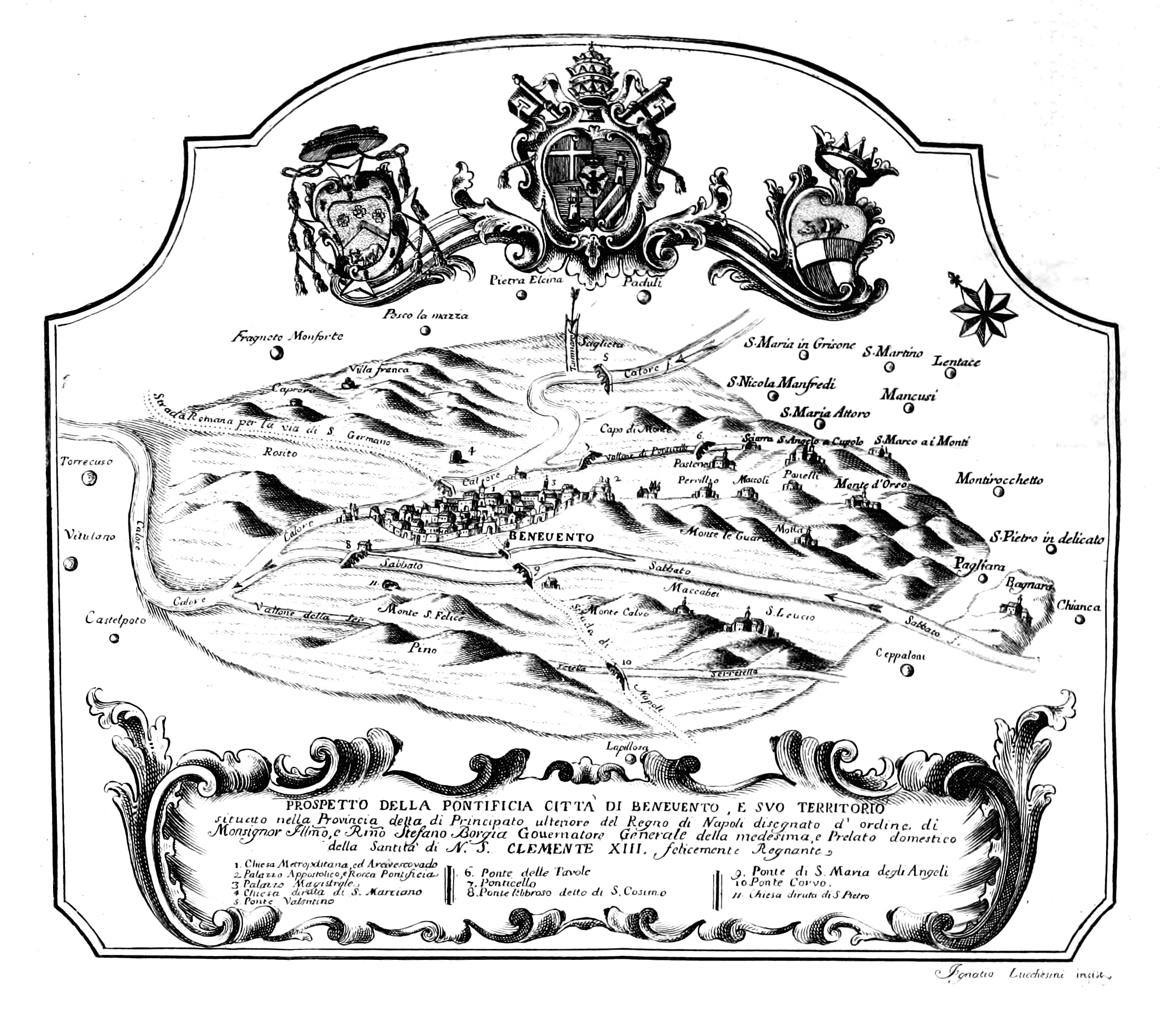 Map of the Papal enclave of Benevento in the 18th century